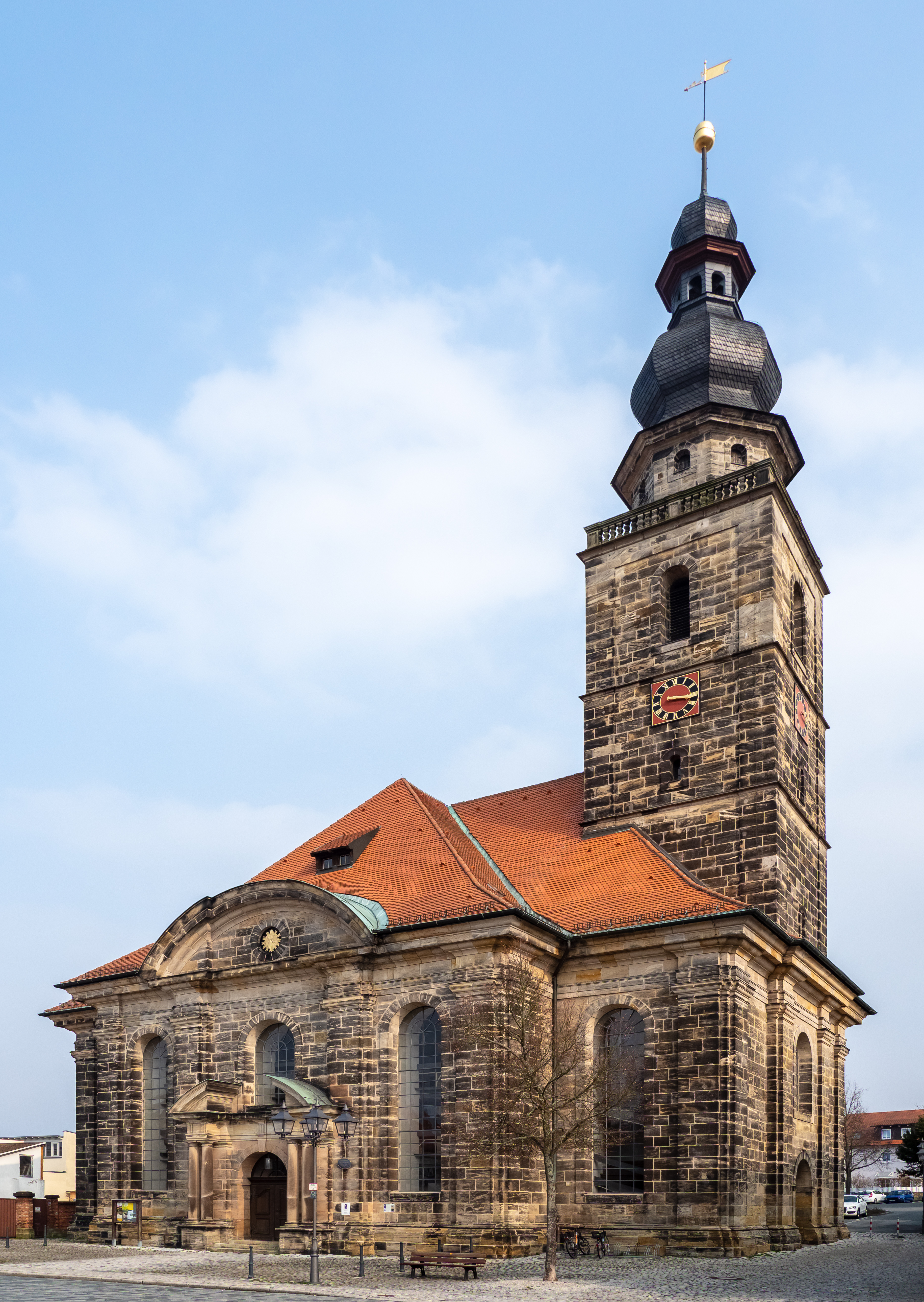 Order church St. Georgen in Bayreuth